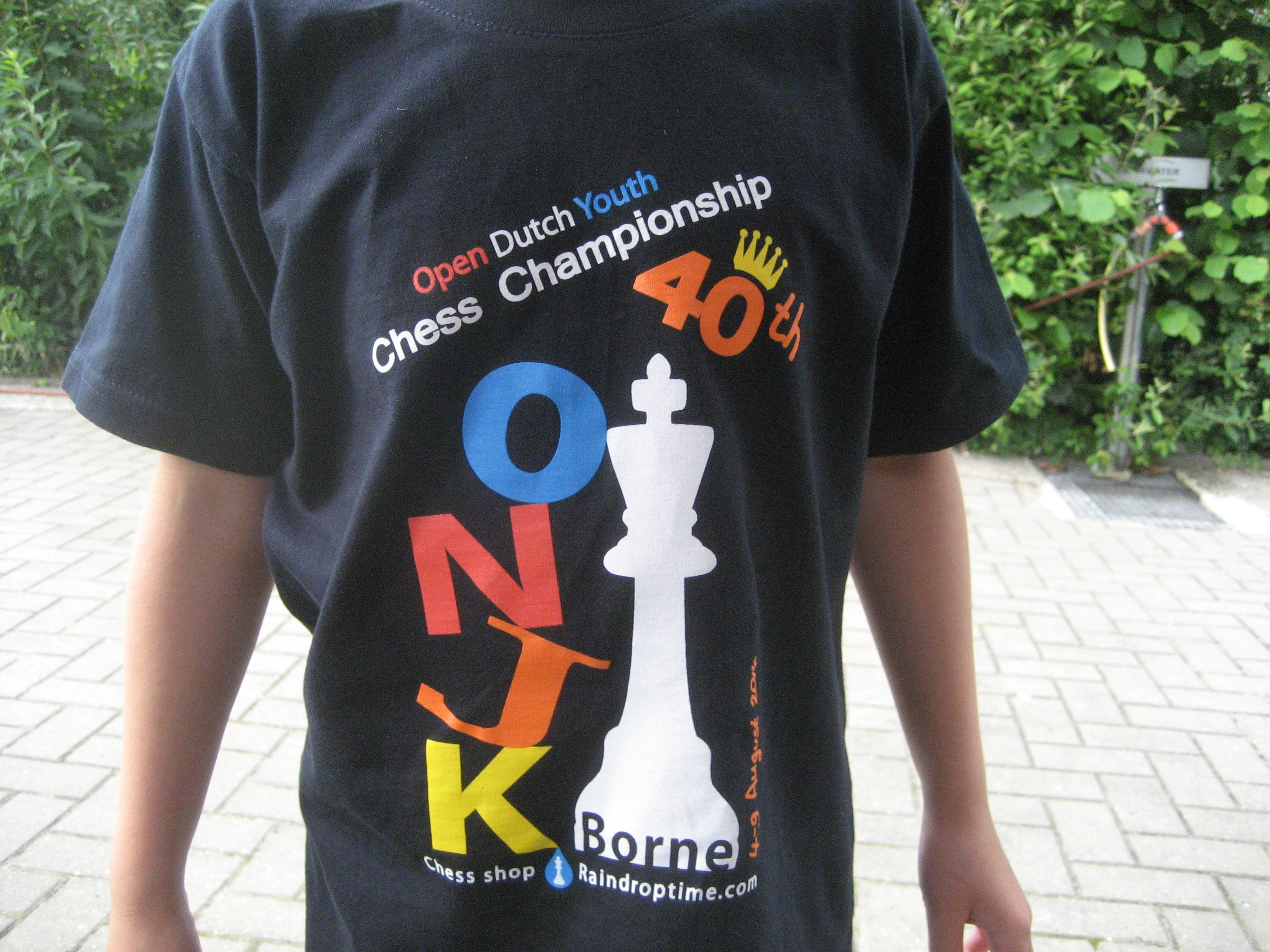 T-shirt Open Dutch Youth Chess Championship (Open Nederlandse Jeugdschaak Kampioenschappen = ONJK) 40th edition 2014